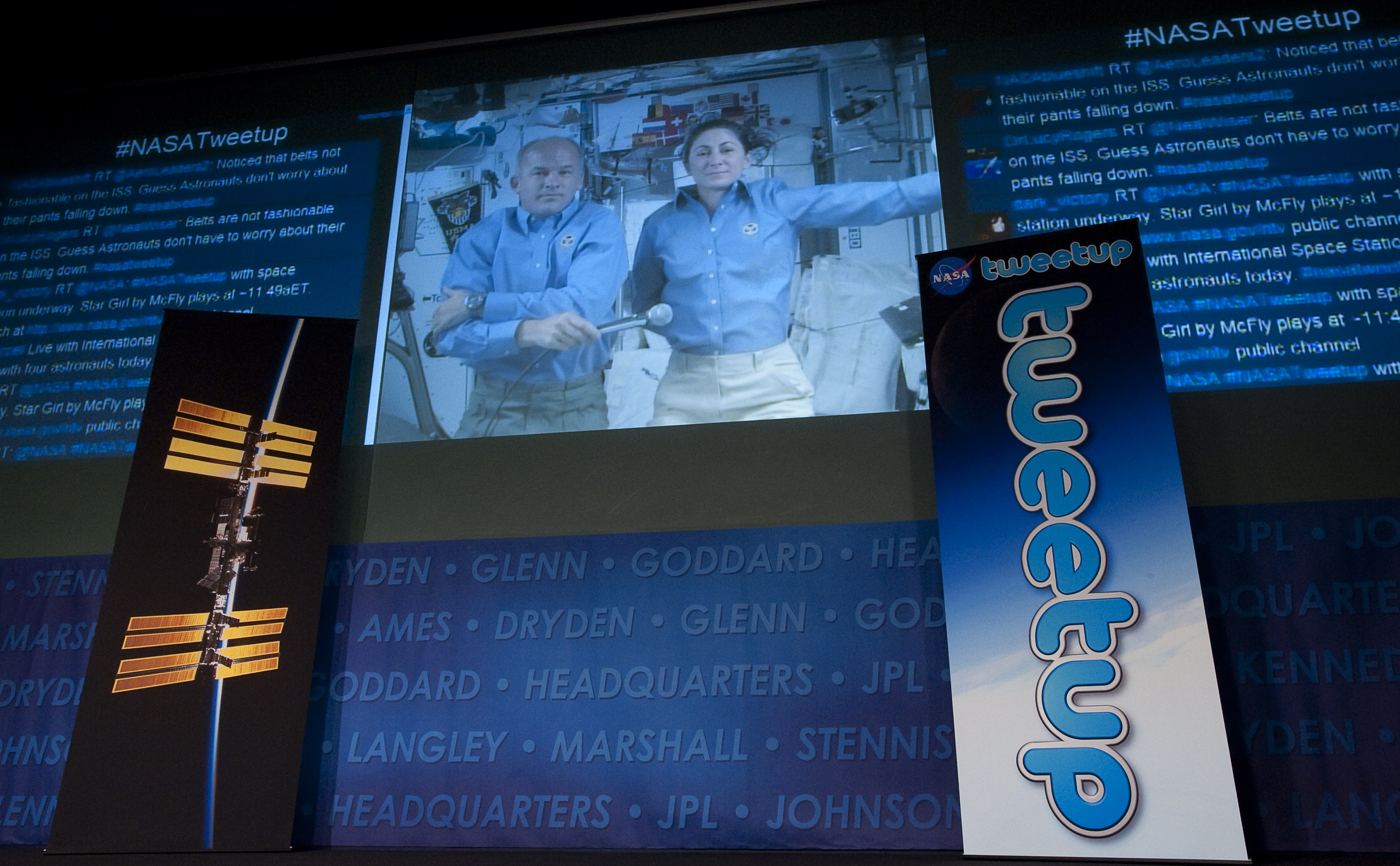 Expedition 21 Flight Engineers Jeff Williams, left, and Nicole Stott are seen during a live broadcast from the International Space Station (ISS) as they answer questions from NASA Twitter followers at NASA Headquarters in Washington, on what it is like to live and work in space, Wednesday, Oct. 21, 2009. Image taken at NASA Headquarters in Washington, D.C. Geotagged as Fort Lesley J Mcnair, Washington.